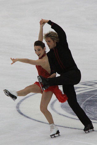 Meryl Davis & Charlie White (USA) at the 2009 NHK Trophy. Compulsory Dance - Tango Romantica